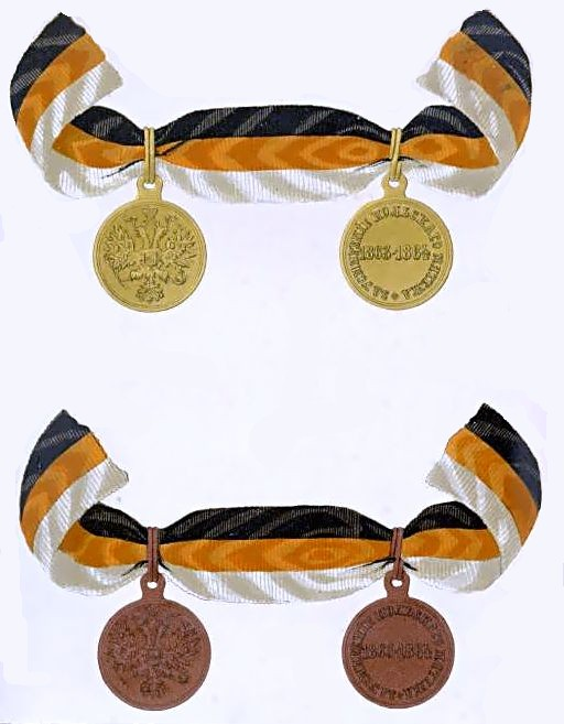 Medal for the suppression of Polish rebellion 1863-1864